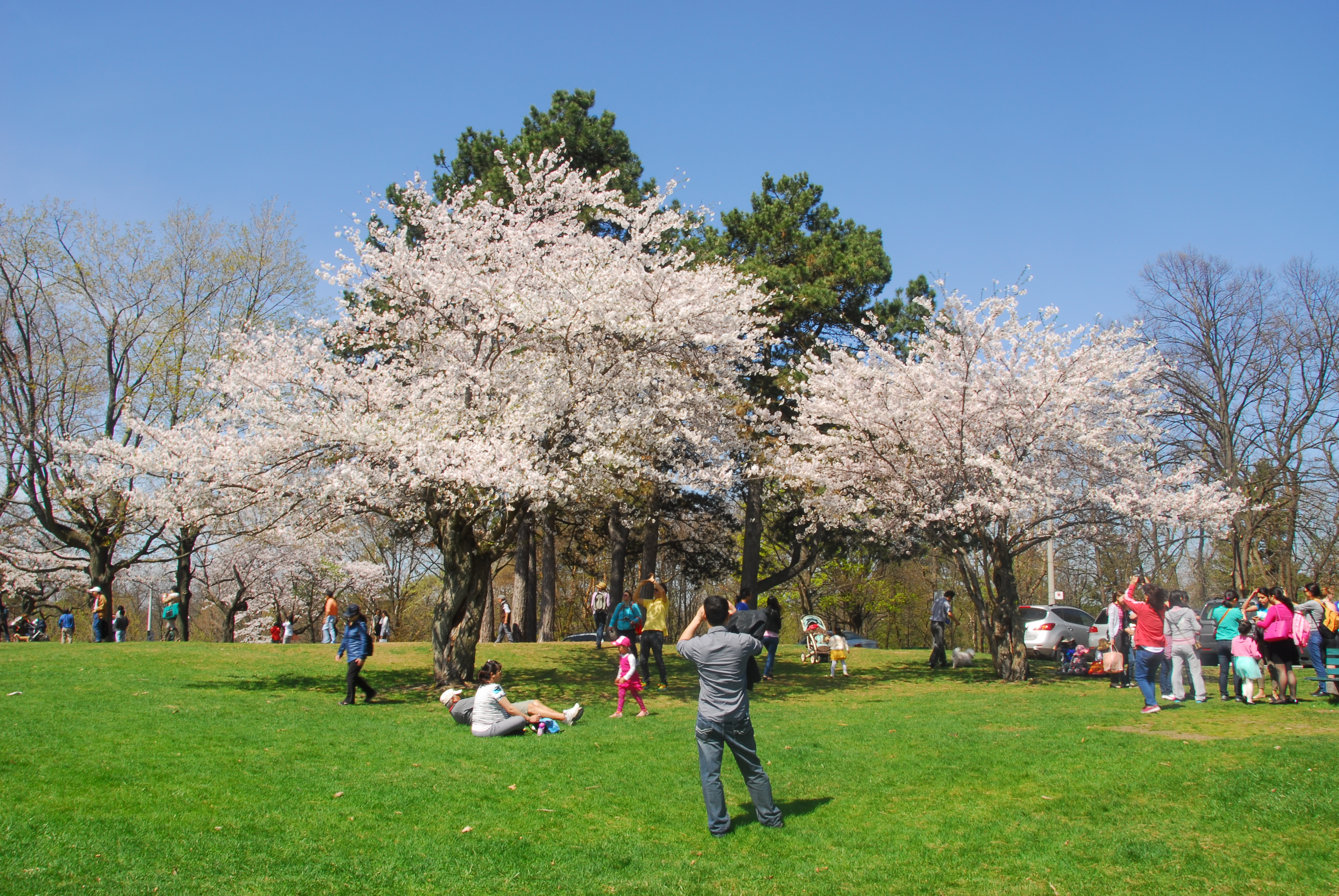 DSC_0129 Photo of High Park, Toronto